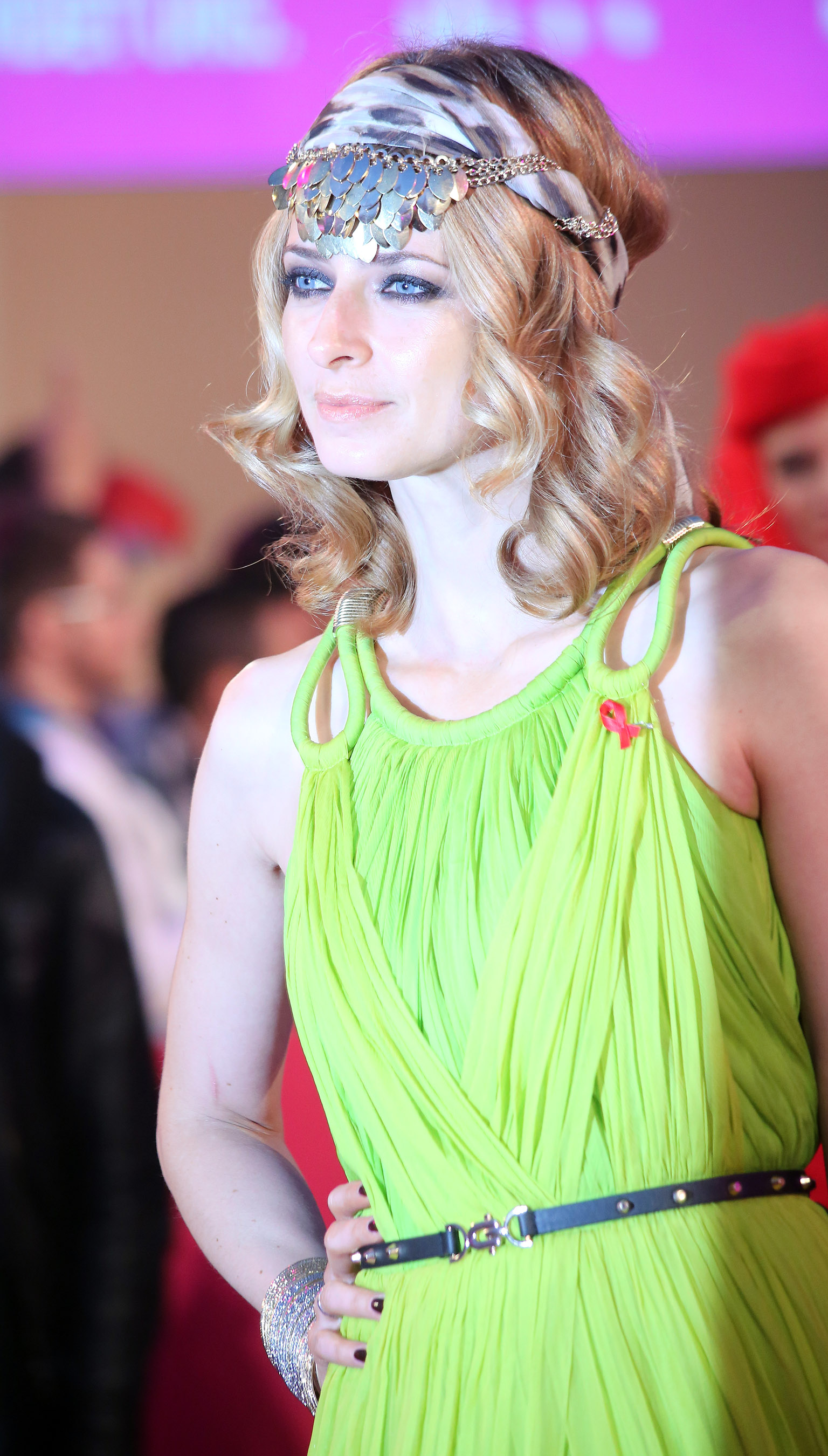 Eva Padberg on the 'magenta carpet' at Life Ball 2013 at the square in front of the city hall of Vienna, Vienna, Austria.